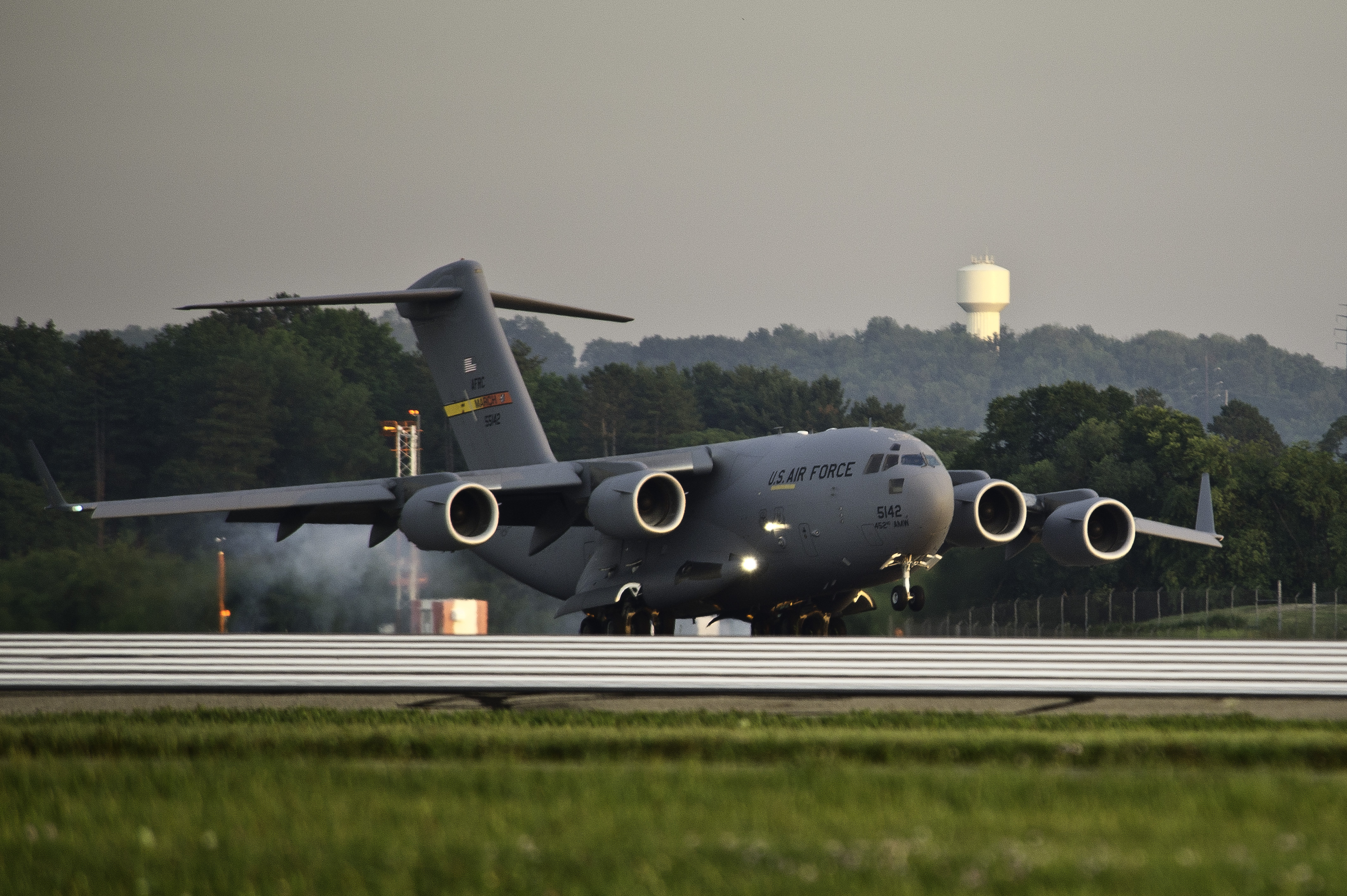 A U.S. Air Force C-17 Globemaster III cargo plane from 452nd Air Mobility Wing, March ARB, Calif., lands at Pittsburgh International Airport Air Reserve Station, Coraopolis, Pa., carrying airmen participating in Global Medic July 19, 2013. Global Medic is an annual joint-reserve field training exercise design to replicate all facets of combat theater aeromedical evacuation support (U.S. Air Force photo/Tech. Sgt. Efren Lopez/Released)